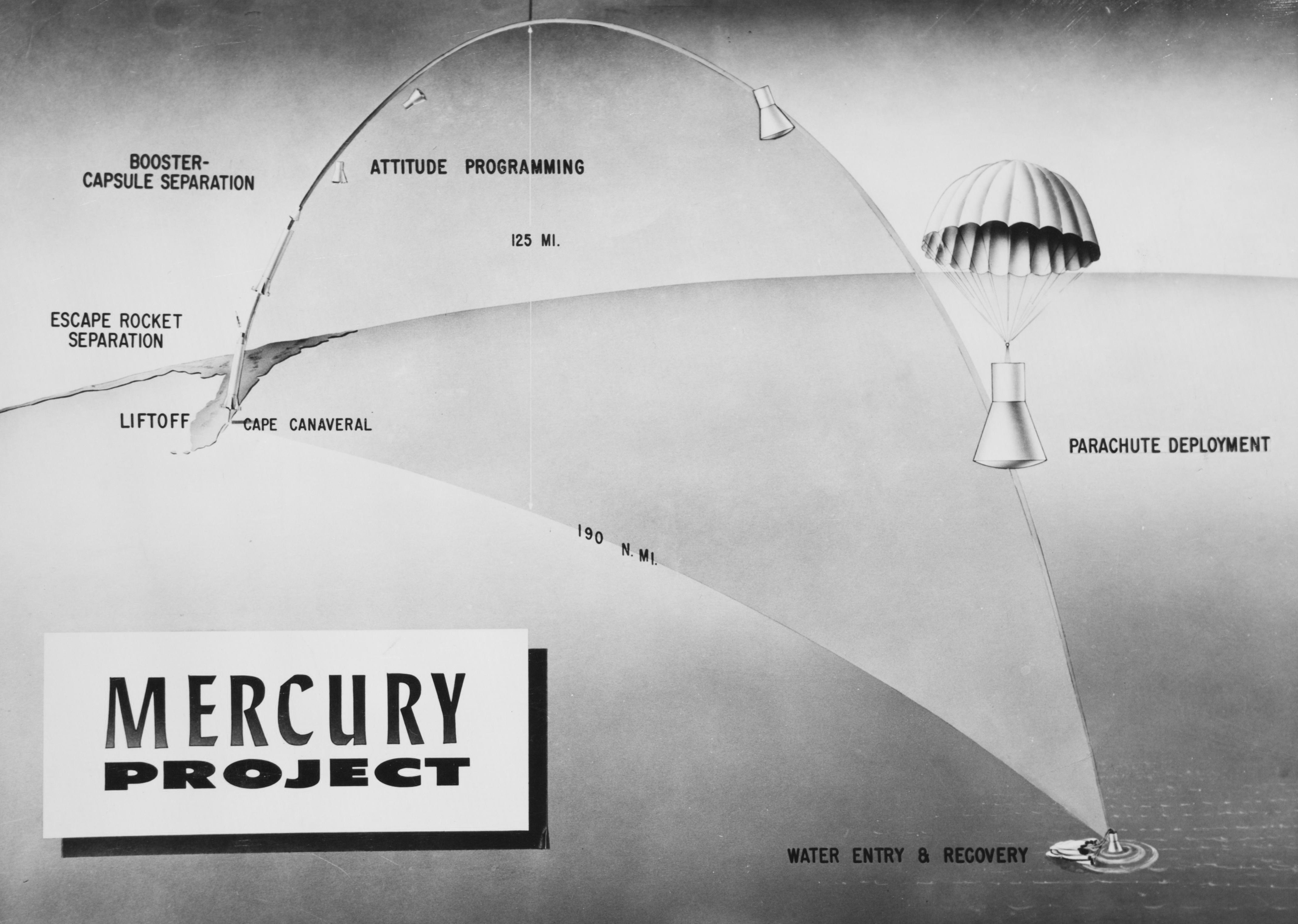 NASA astronaut Alan Shepard launched at 9:34 a.m. EDT aboard his Freedom 7 capsule powered by a Redstone booster to become the first American in space.